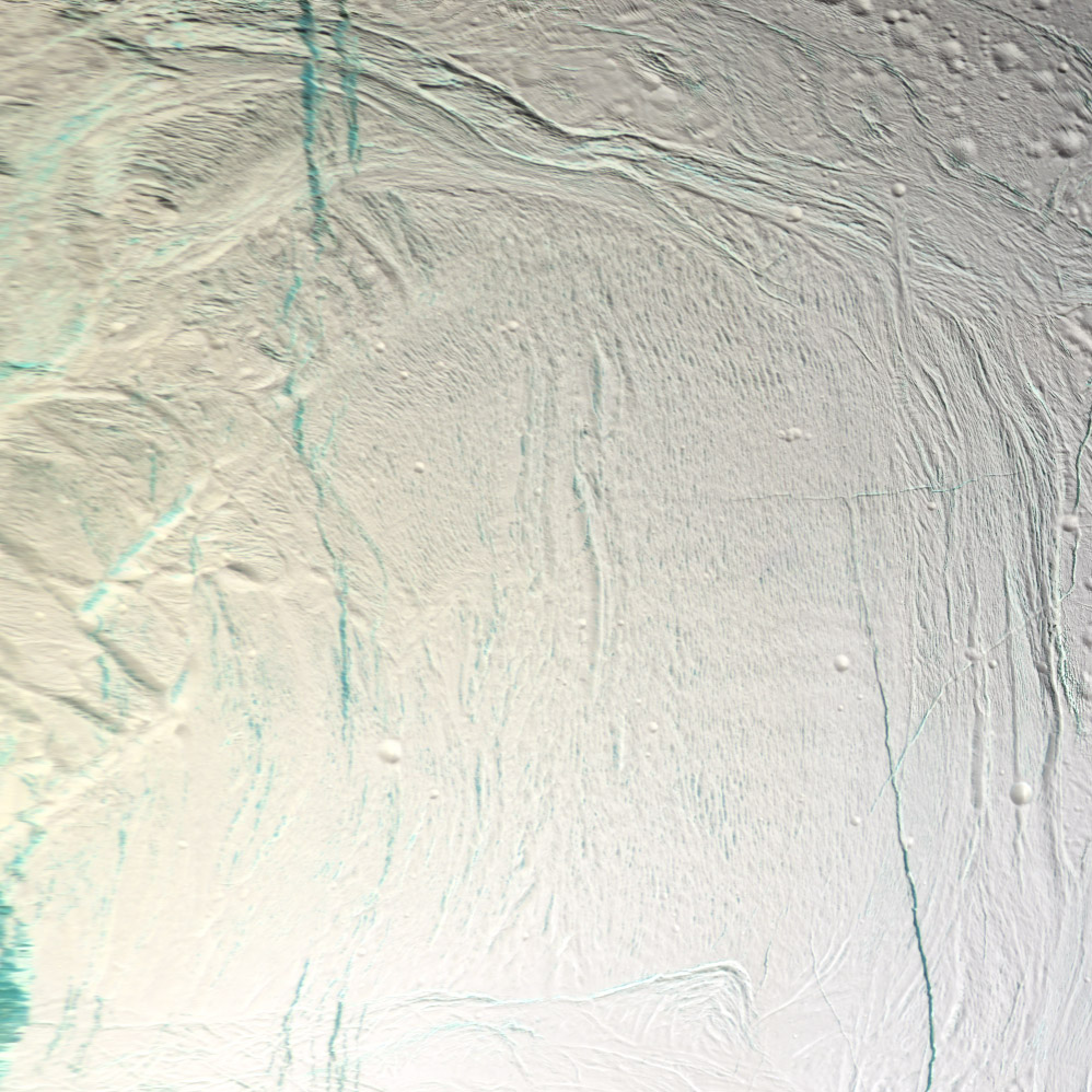 False color mosaic of Diyar Planitia, a region of deformed terrain on Saturn's moon Enceladus. Images in this mosaic were taken by the Cassini spacecraft's Imaging Science Subsystem on March 9, 2005. Belt of troughs and ridges to the north and east of Diyar Planitia is named Harran Sulci.